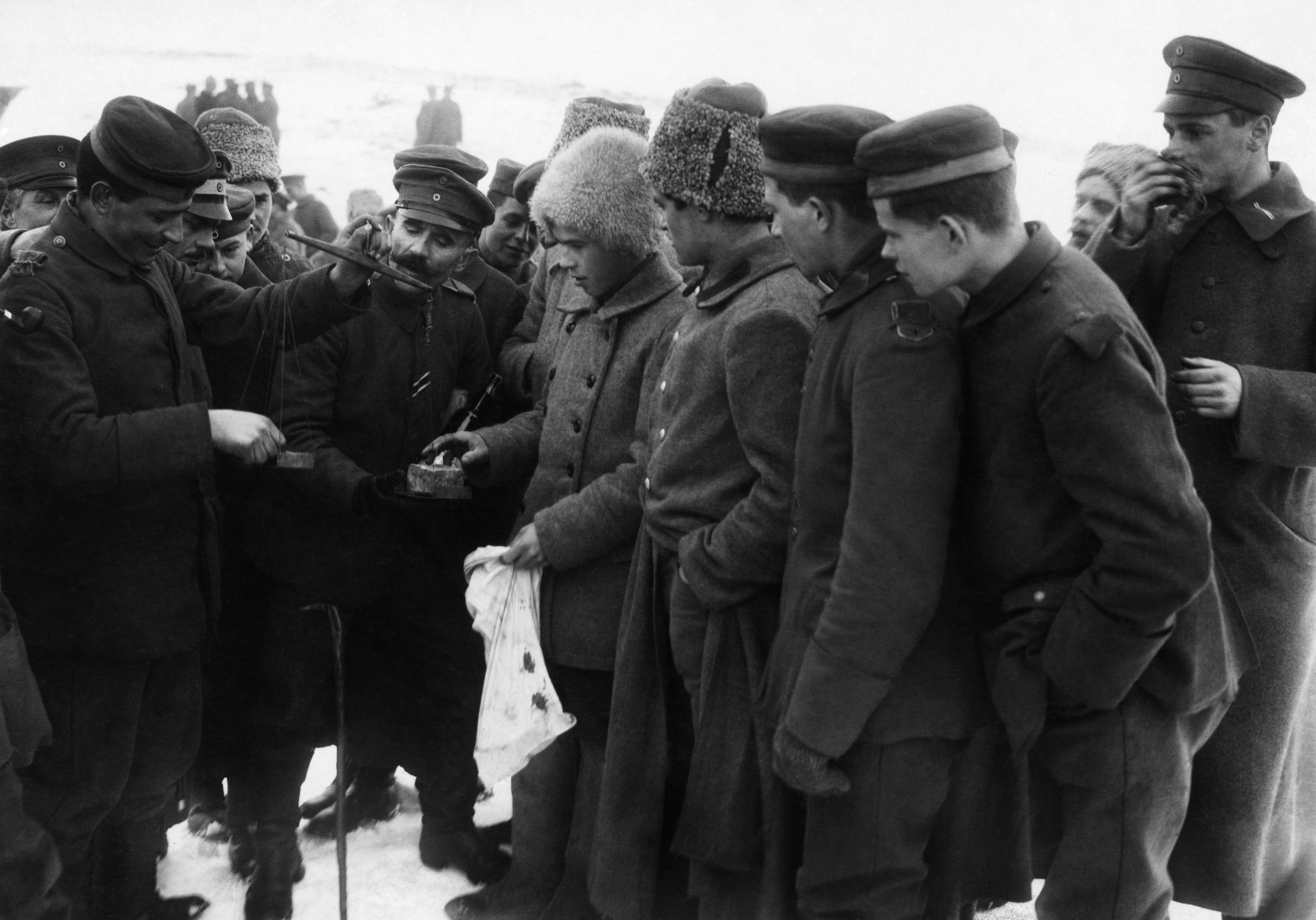 German soldiers and Soviet troops gathering together, February 1918. They seem to exchange some goods based on their weight.